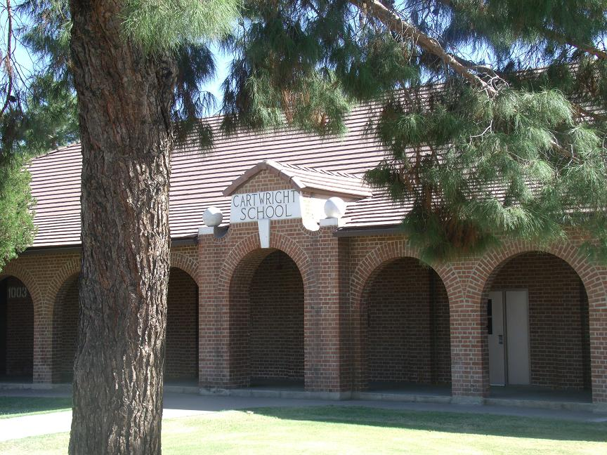 Historic Cartwright School — in Phoenix, Arizona. Listed on the NRHP in 1993